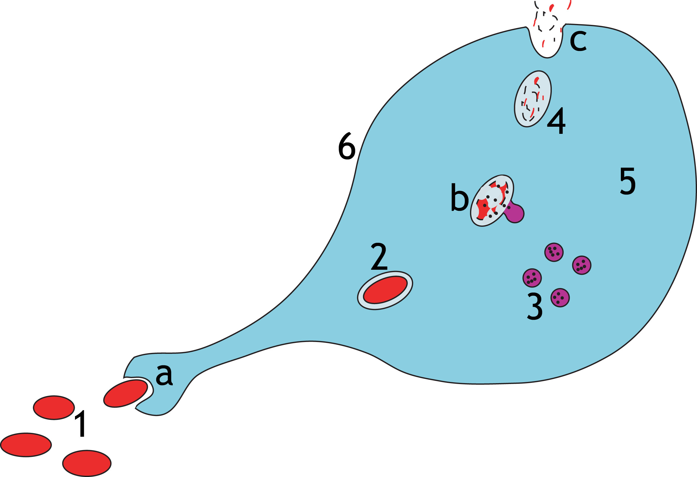 A happy macrophage ingesting not so happy pathogens